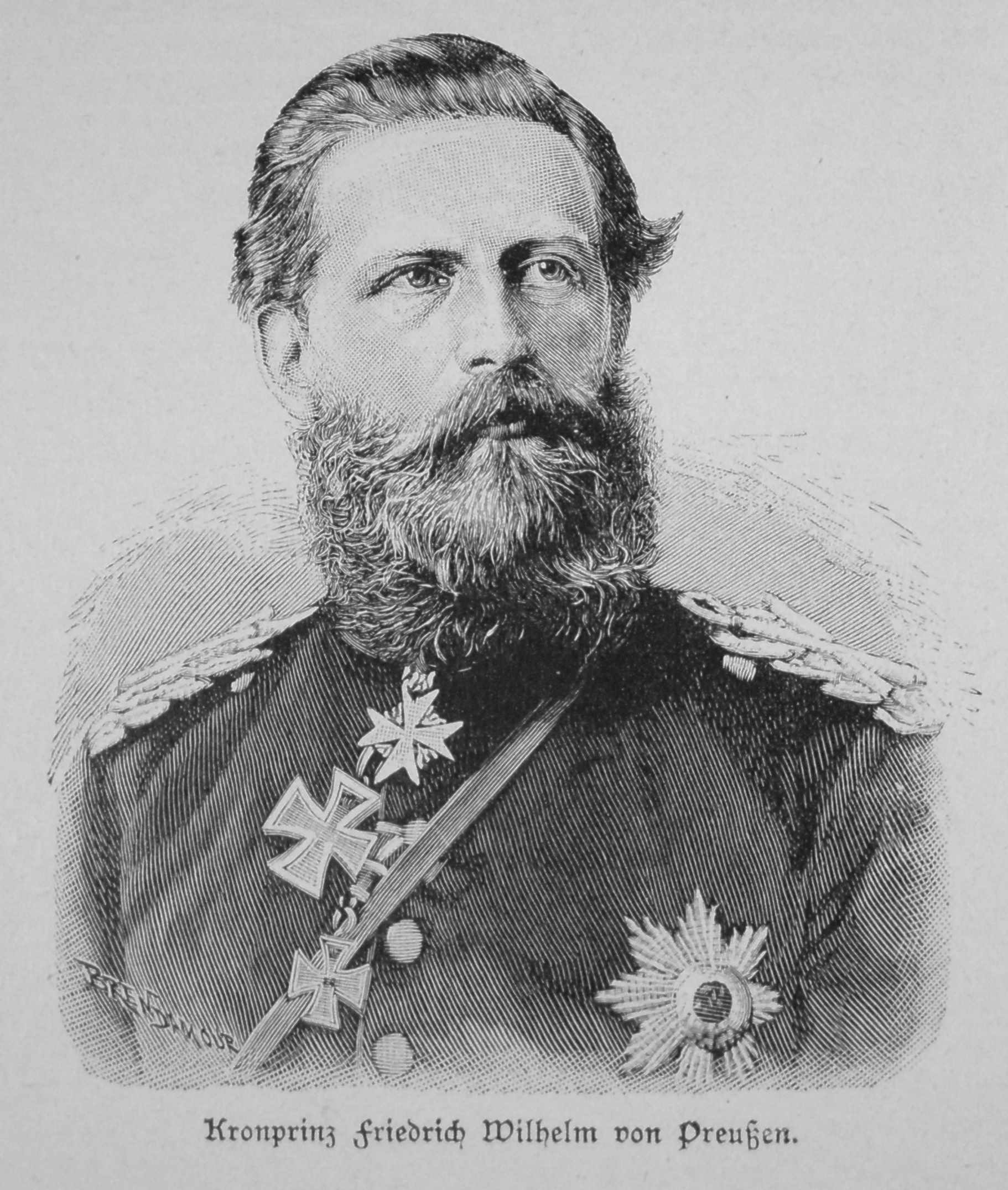 crown prince Friedrich Wilhelm von Preußen